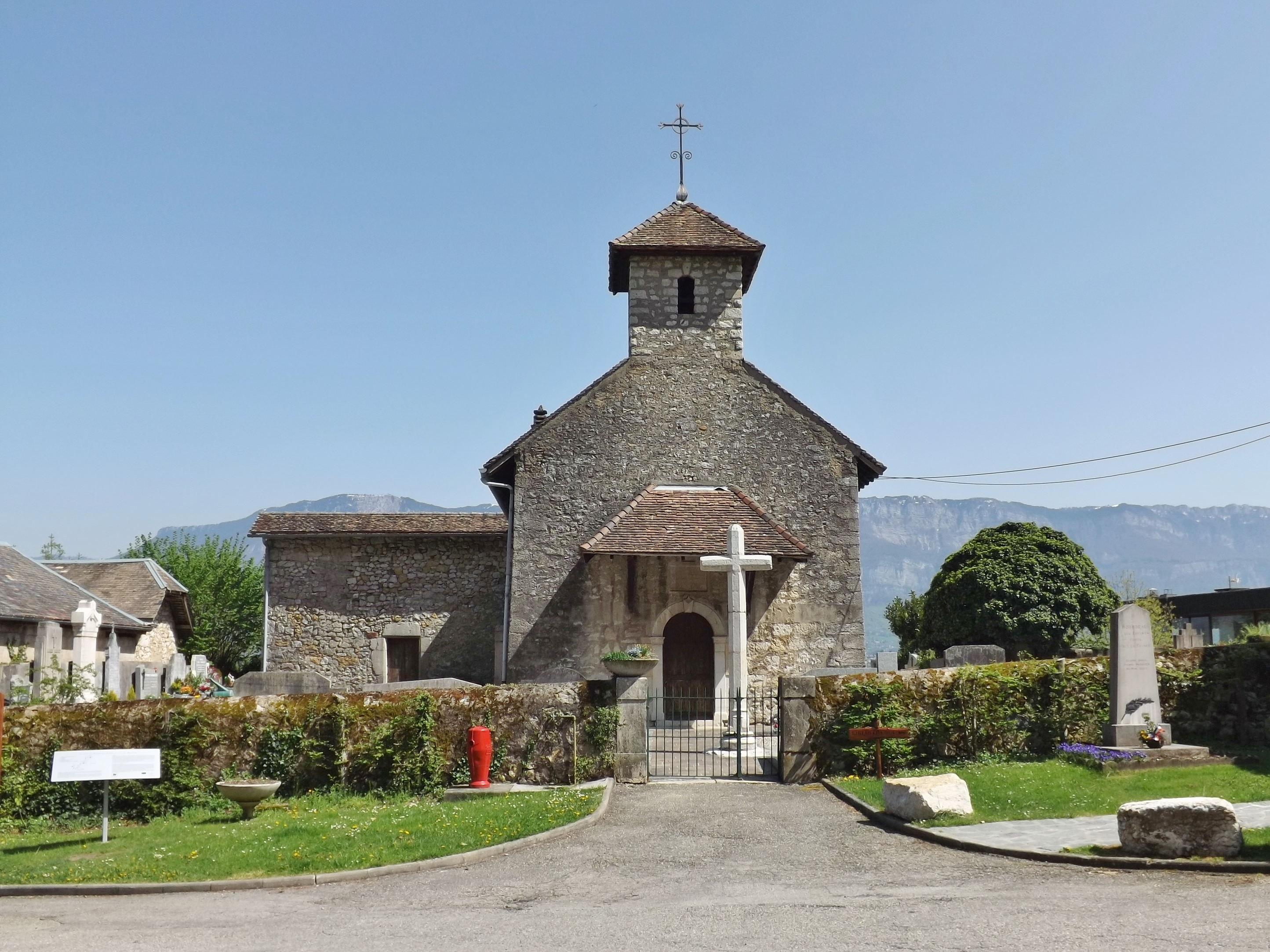 Sight of the church of the savoyan village of Bourdeau in France.